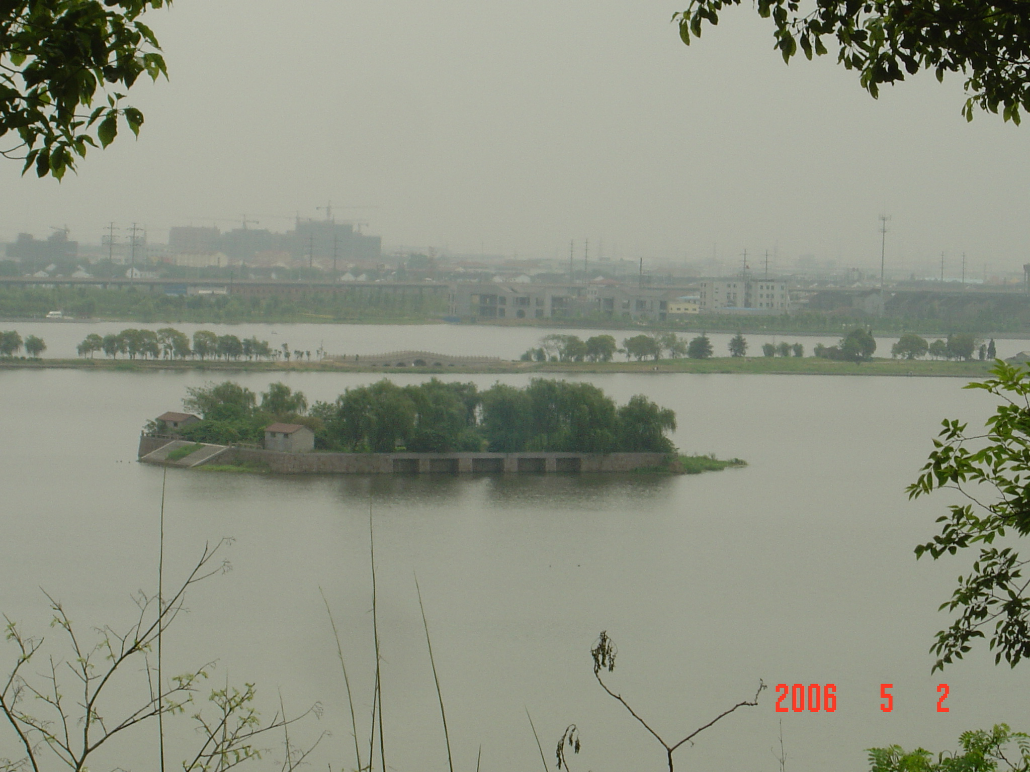 Shihu Lake